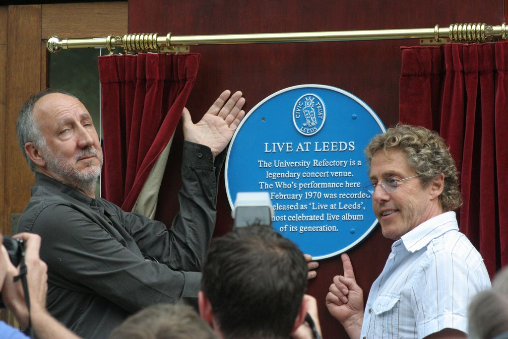 Roger Daltrey and Pete Townshend of "The Who" unveiled a Blue Plaque at Leeds University on 17 June 2006 to commemorate their album "Live at Leeds" which was recorded there in 1970 taken by Aaron Gutteridge